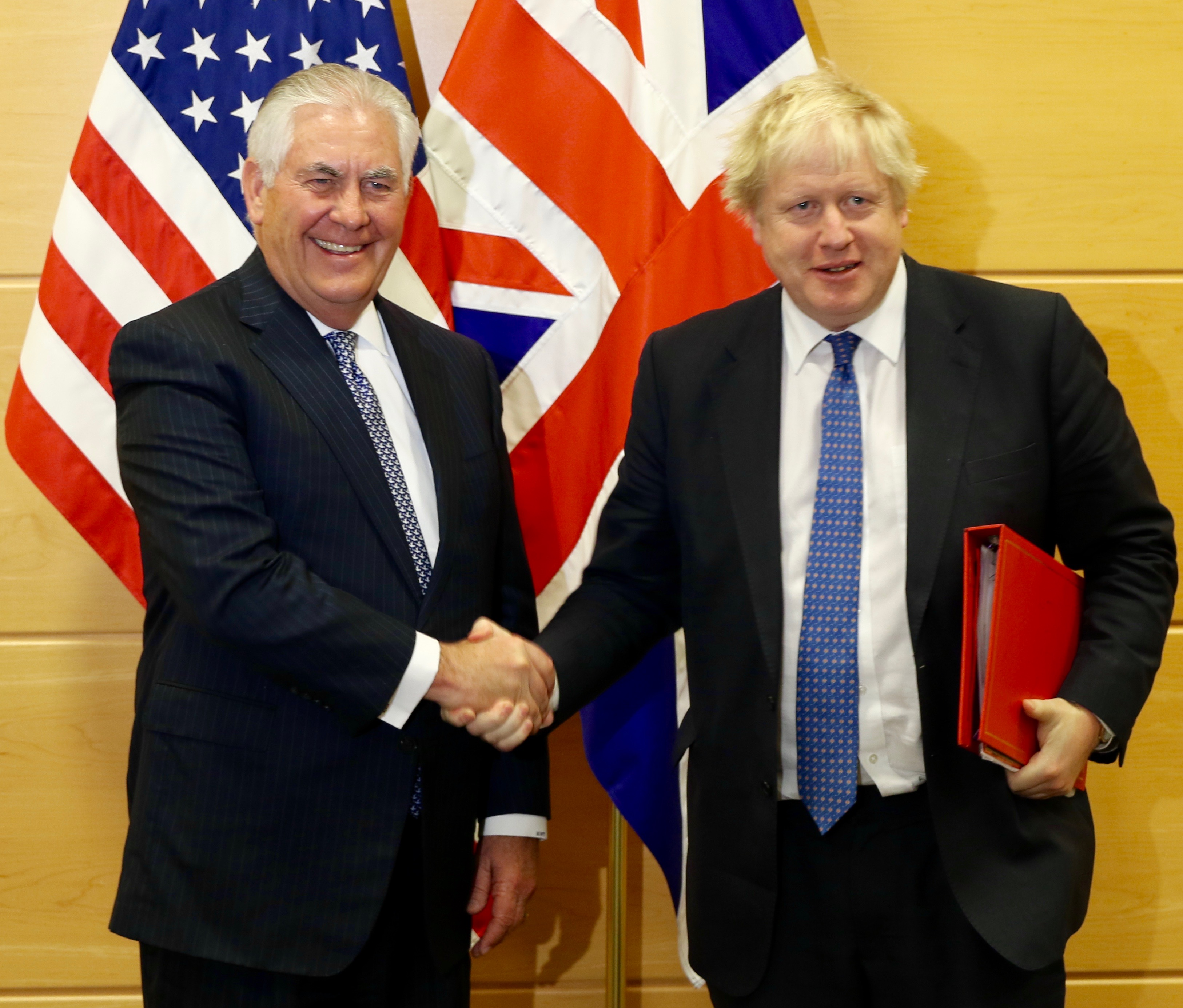 U.S. Secretary of State Rex Tillerson meets with British Foreign Secretary Boris Johnson at NATO headquarters in Brussels Belgium on December 6, 2017. [State Department Photo/ Public Domain]